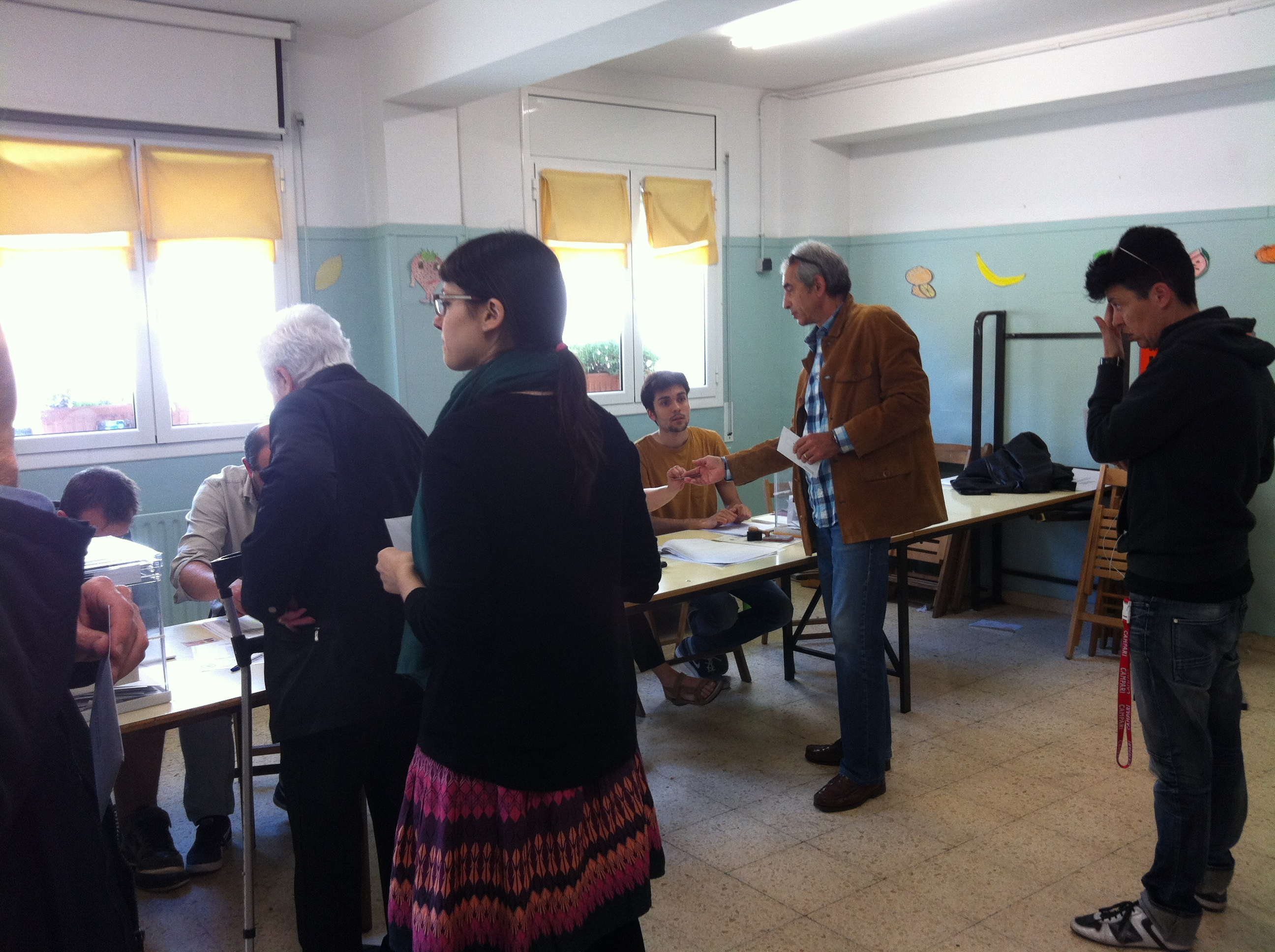 European Parliament election, 2014 (Sabadell, Catalonia)